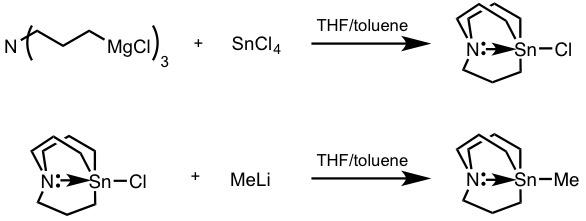 Early synthesis of methyl stannatrane.